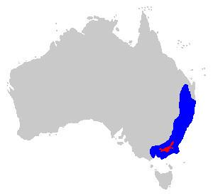 Distribution of the Whistling Tree Frog (Litoria verreauxii). Subspecies L. v. verreauxii in blue and subpecies L. v. alpina in red.